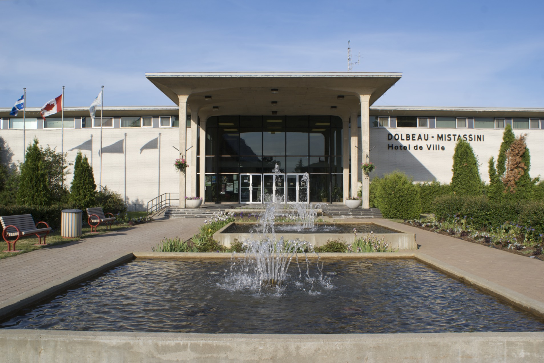 Town-hall of Dolbeau-Mistassini, Quebec